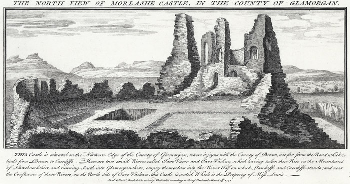 A view of the ruins of Morlais Castle with hills and mountains in the background.